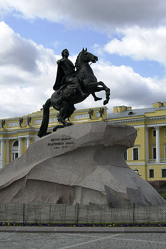 ST PETERSBURG. A statue of Peter the Great by sculptor Etienne Maurice Falconet.